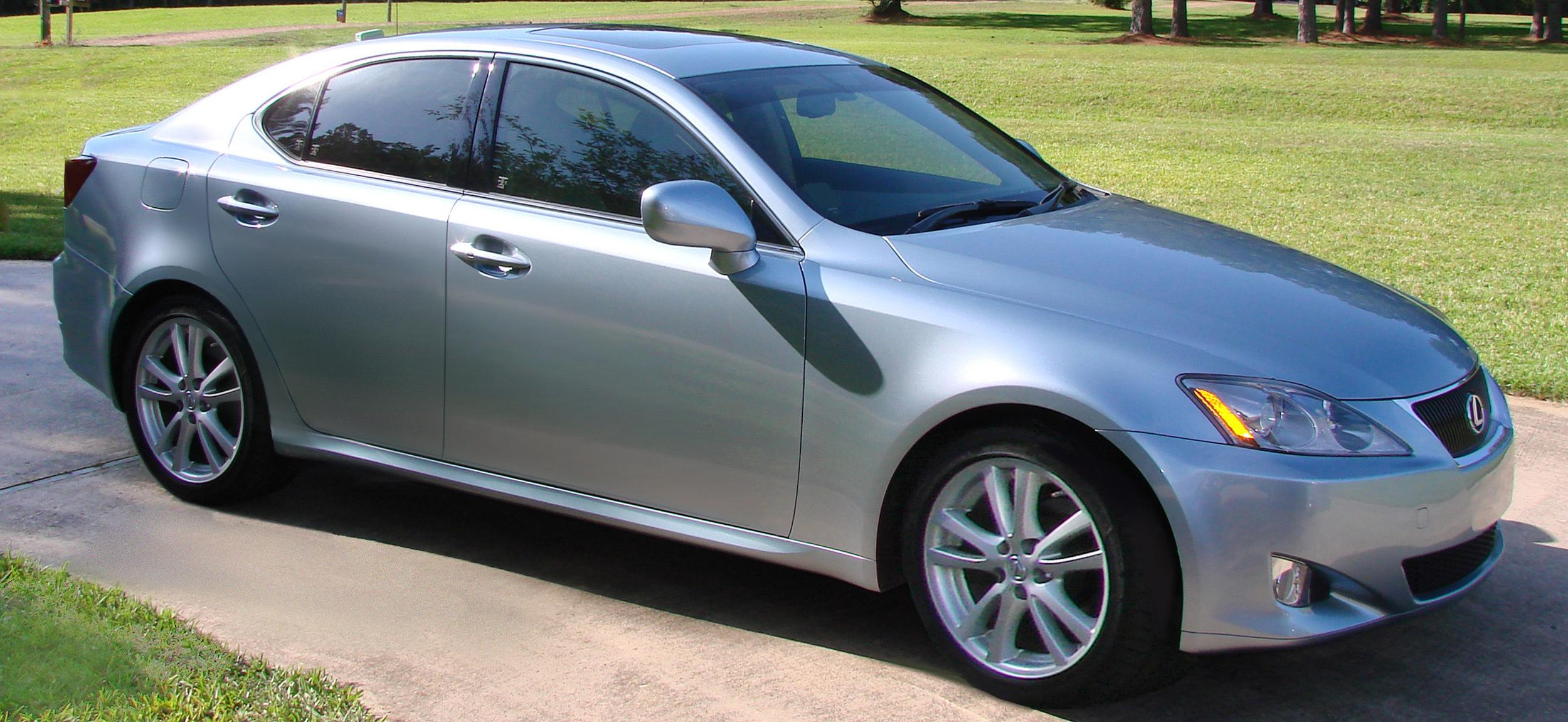 No key needed, just have a fob in your pocket and put your hand in the door handle, the door unlocks. Get in and with your foot on the brake, press the start button. It has the three features that I have insisted on needing: MP3 CD playing, Aux input for my MP3 player, and automatic headlights. Oh so smooth and quiet.